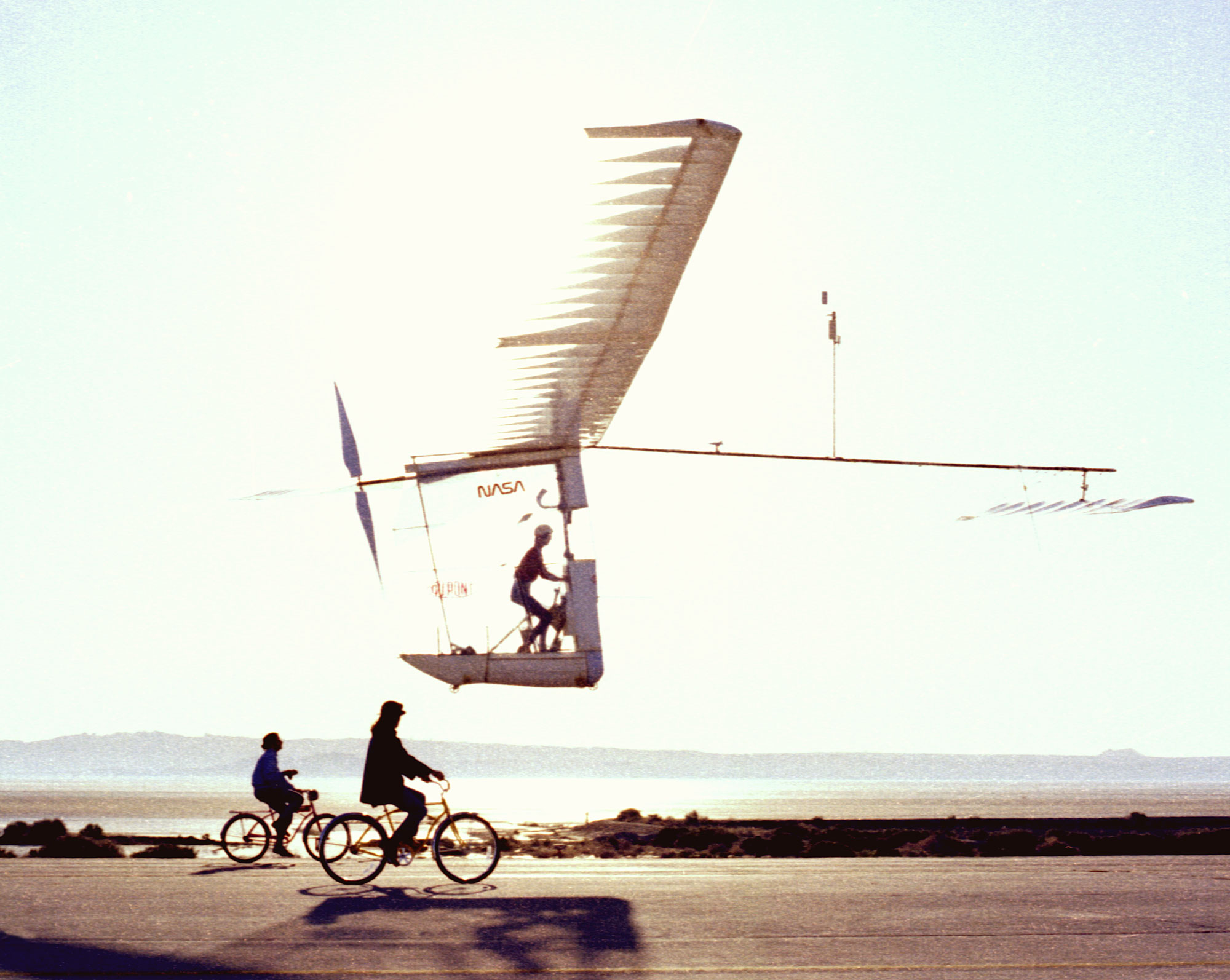 The Gossamer Albatross II is seen here during a test flight at NASA's Dryden Flight Research Center, Edwards, California.